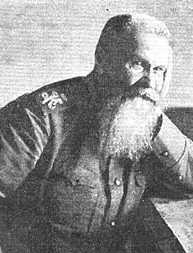 Nikolai Ivanov, Russian commander.